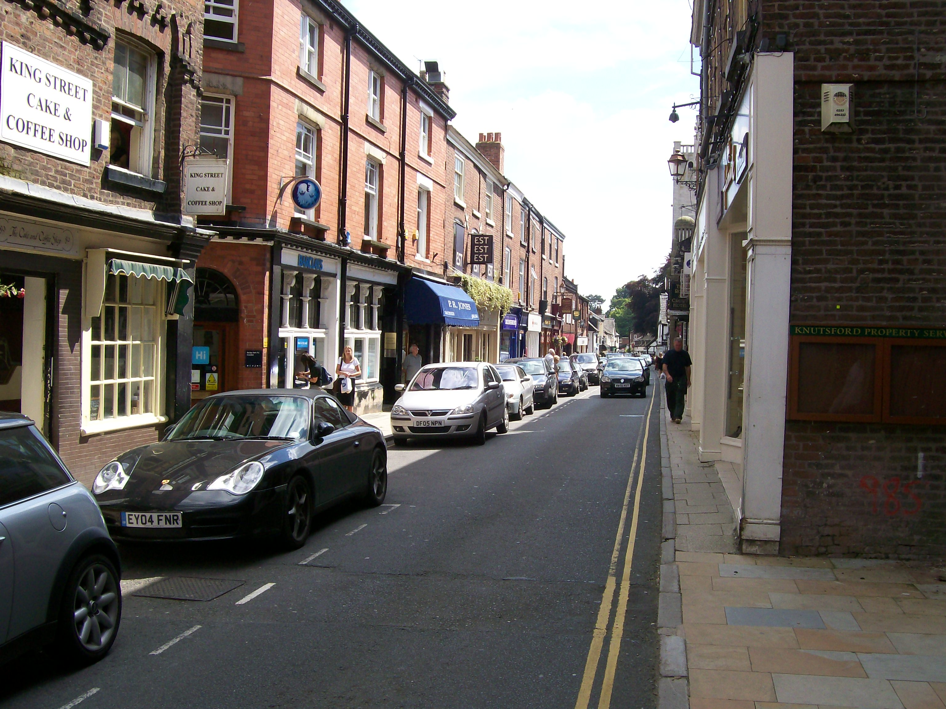 King Street in Knutsford